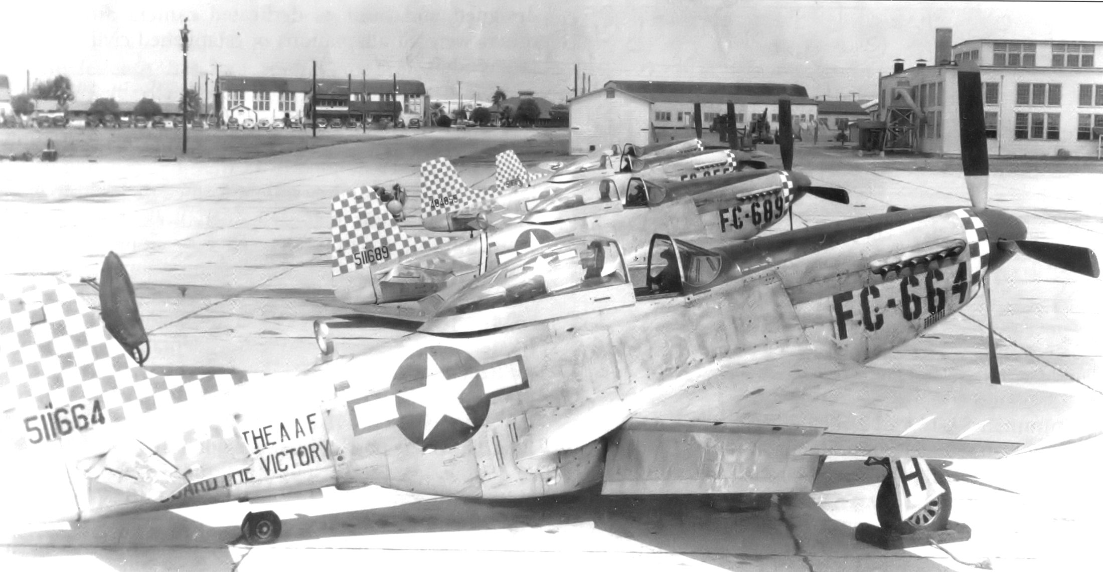 363th Recon Group P-51D Mustangs November 1946 Shaw Field SC Serials identified are 45-11665 45-11689 44-84855, location may not be shaw Field, building placement does not line up with layout of flt line (photo was marked as 20 FG but the P-51 used PF Not FC. FC was used by the F-5 the recon version of the P-51. Also the 363 used the checkerboard as their tail markings.